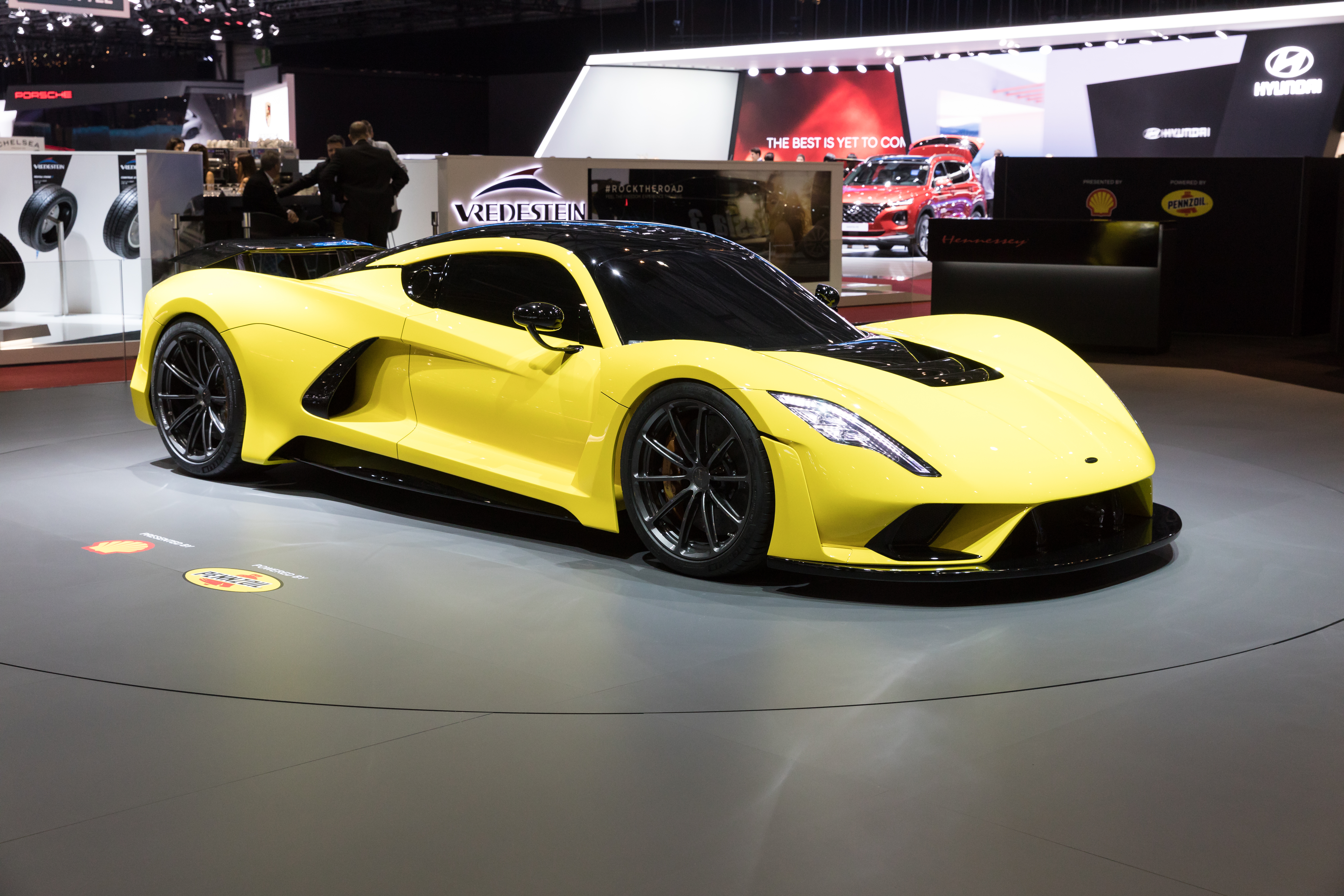 Geneva International Motor Show 2018, Hennessey Venonm F5